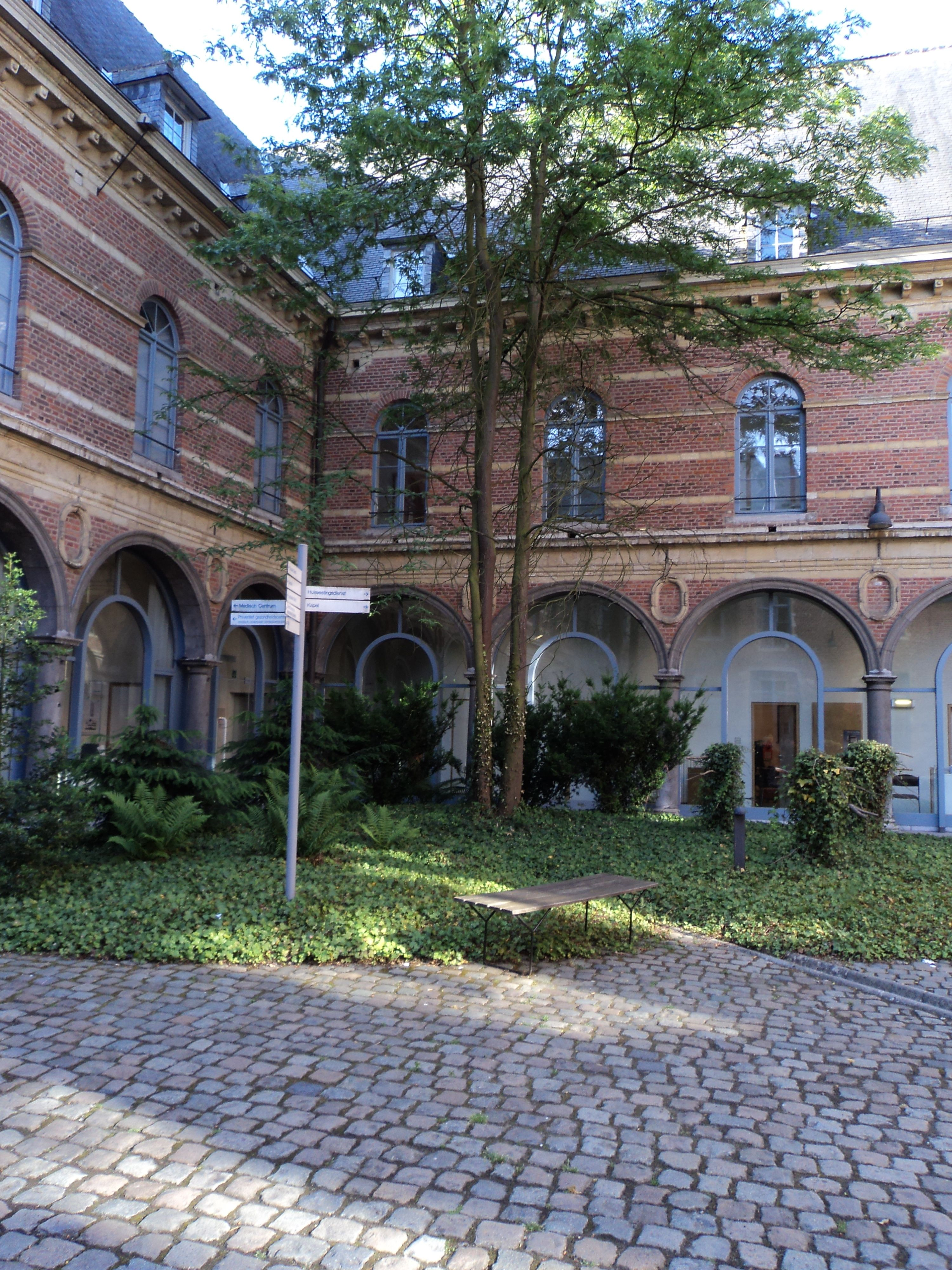 Van Dale College Leuven - patio